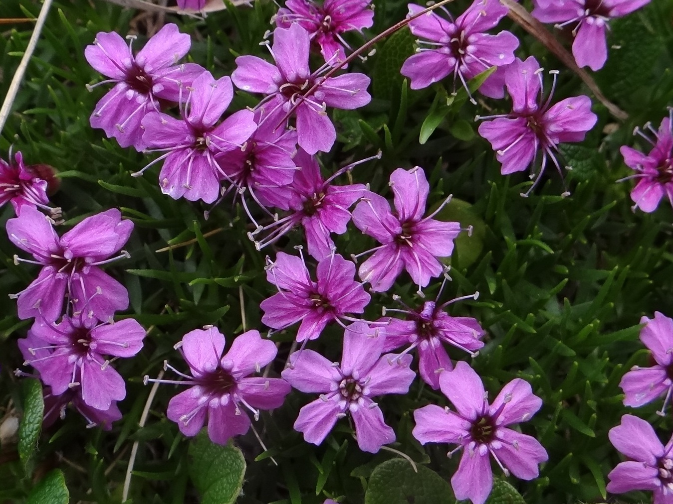 Silene acaulis (habitat:West Tatra Mountains, Ciemniak)